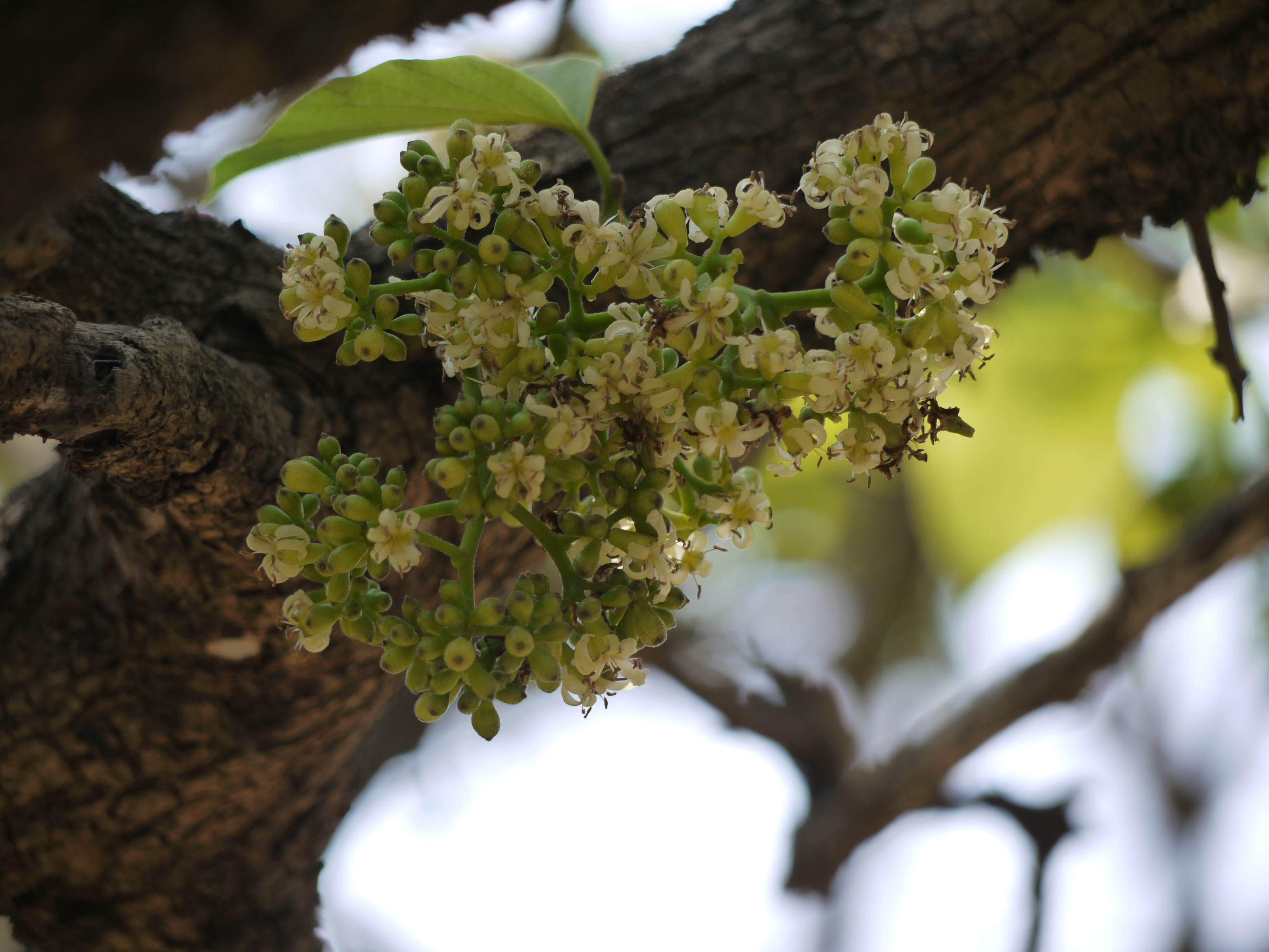 Boraginaceae (forget-me-not family) » Cordia dichotoma KOR-dee-uh -- named for Valerius Cordus, 16th century German botanist dy-KAW-toh-muh -- divided or forked in pairs commonly known as: bird lime tree, clammy cherry, fragrant manjack, Indian cherry, Sebesten plum • Assamese: goborsuta • Bengali: bahubara • Gujarati: વદો ગુંદો vado gundo • Hindi: बहूआर bahuar, गुन्दा gunda, लसोड़ा lasora • Kannada: ಚಳ್ಳೆ ಹಣ್ಣು challe hannu • Malayalam: നറുവേലി naruveeli, വിരശം virasam, വിരി viri • Marathi: भोकर bhokar, गोंदणी gondani, गोंधण gondhan • Sanskrit: बहुक bahuka, बहुवारः bahuvaraha, उद्दलक uddalaka • Tamil: நறுவல்லி naru-valli, விரிசு viricu • Telugu: నెక్కర nekkara, శ్లేష్మాతకము slesmatakamu, విరిగి virigi • Urdu: سپستان sipistan Native to: China, eastern Asia, Indian subcontinent, Indo-China, Malesia, northern Australia, south-western Pacific References: Flowers of India • NPGS / GRIN • PIER • World Agroforestry Centre • efloraofindia